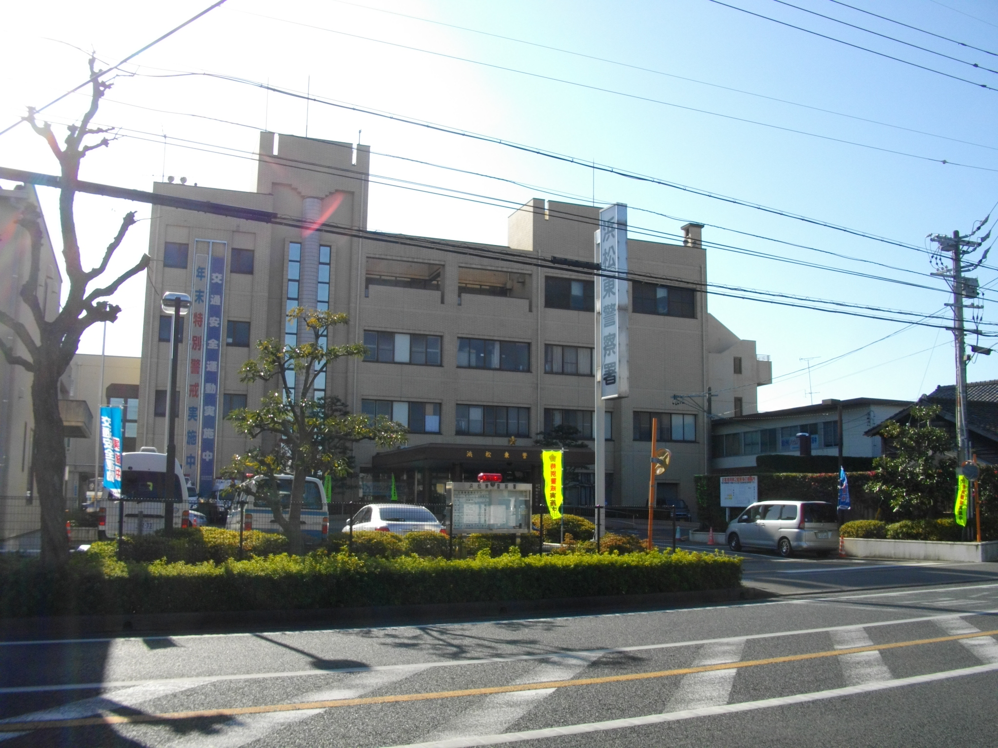 Hamamatsu-Higashi Police Station